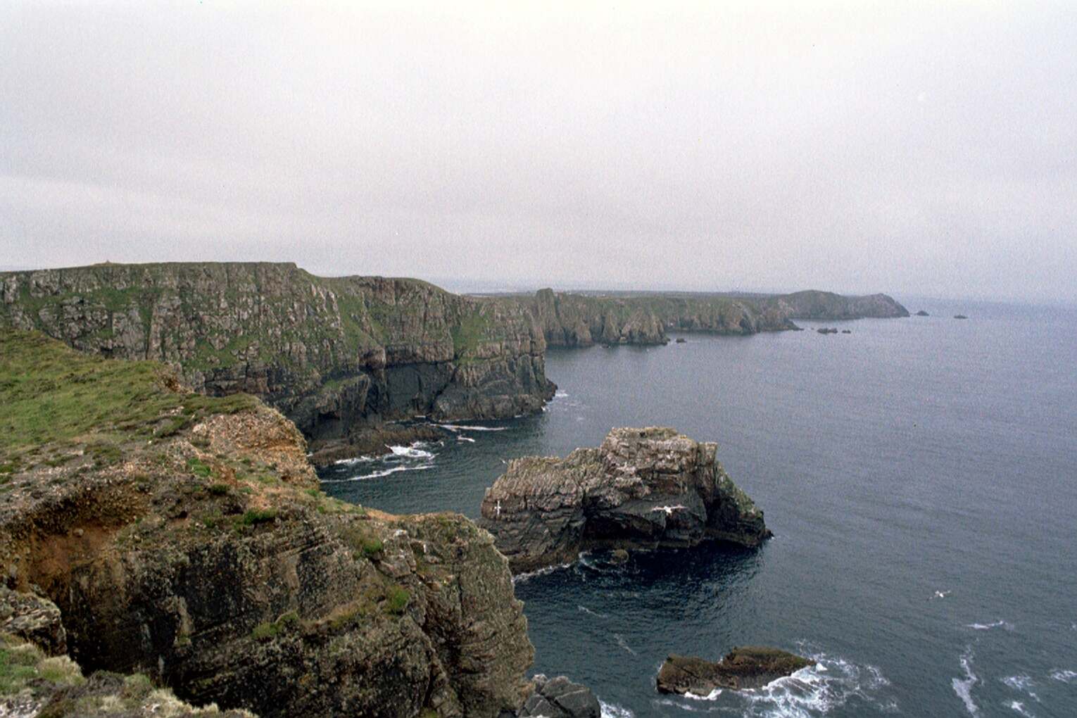 Tory Island, County Donegal, Ireland North East view of the cliffs from Dún Bhaloir